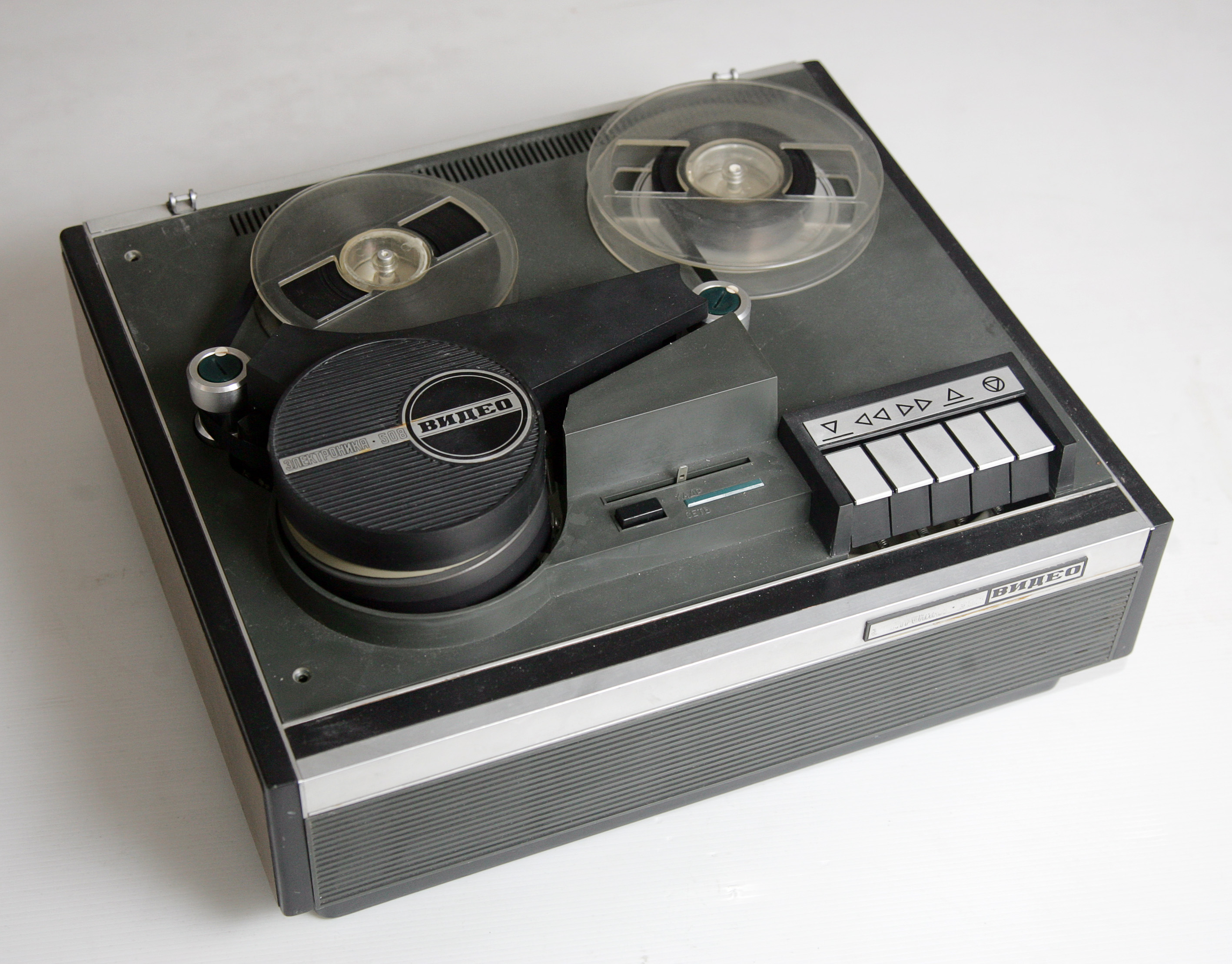 Soviet video tape recorder "Electronika-508 Video" at the Nizhegorodskaya radio laboratory exhibition.